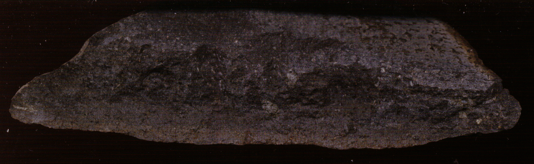 Teschenite, an intrusive rock from Red Rocks Gorge ACT Australia